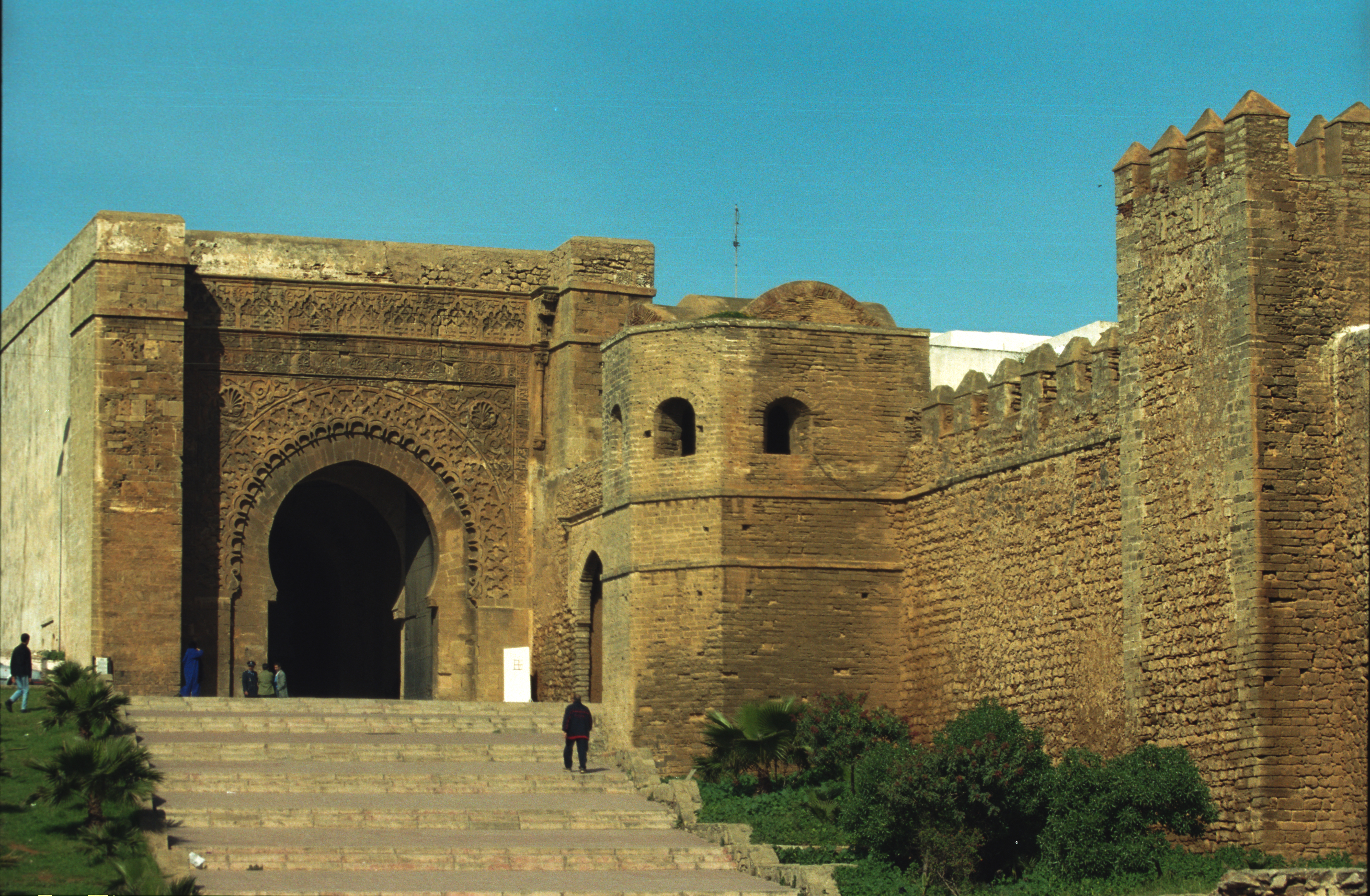 Rabat, Fortress Gate, Morocco